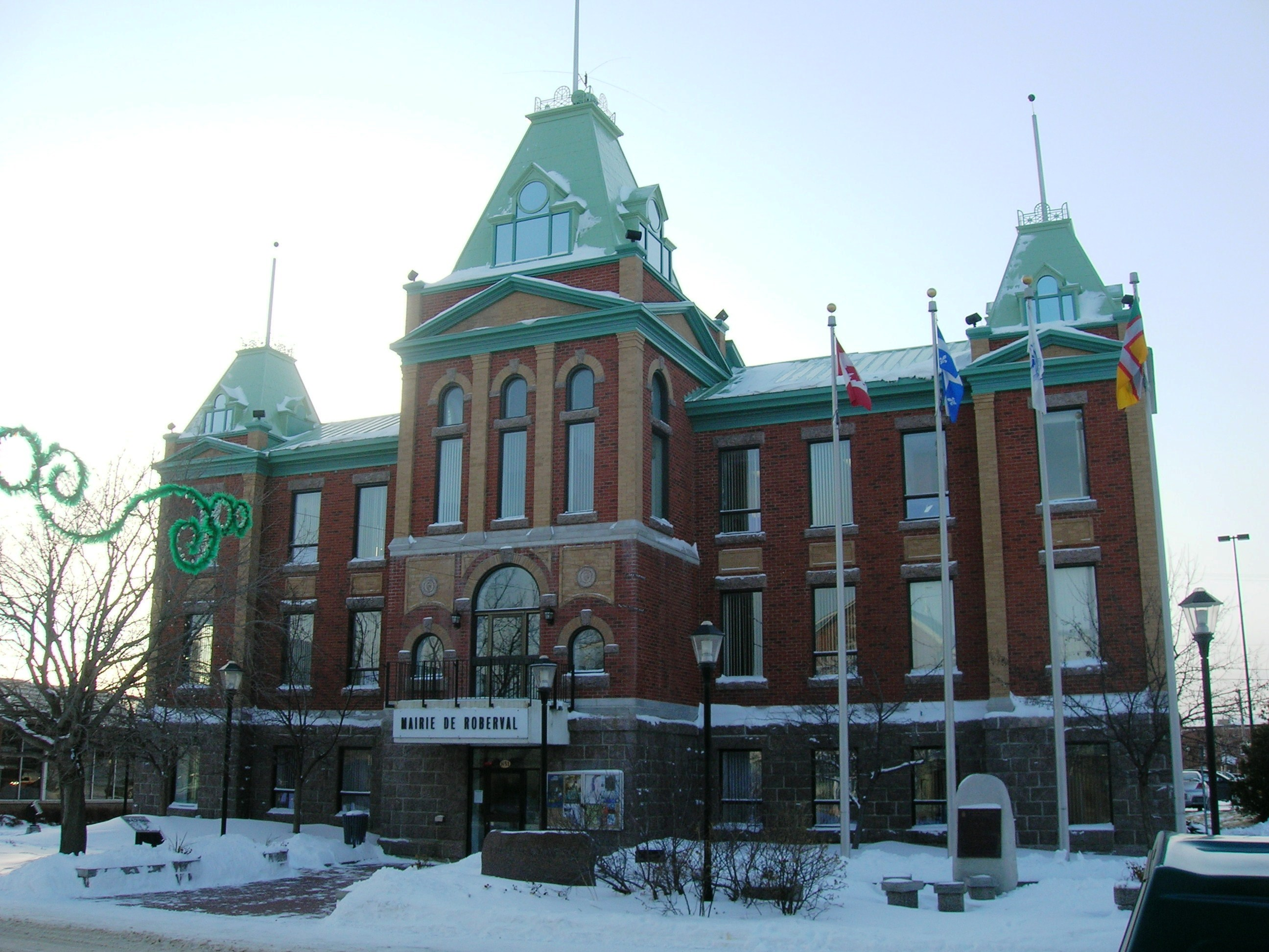 This is the town hall of the city of Roberval, lac St-Jean.